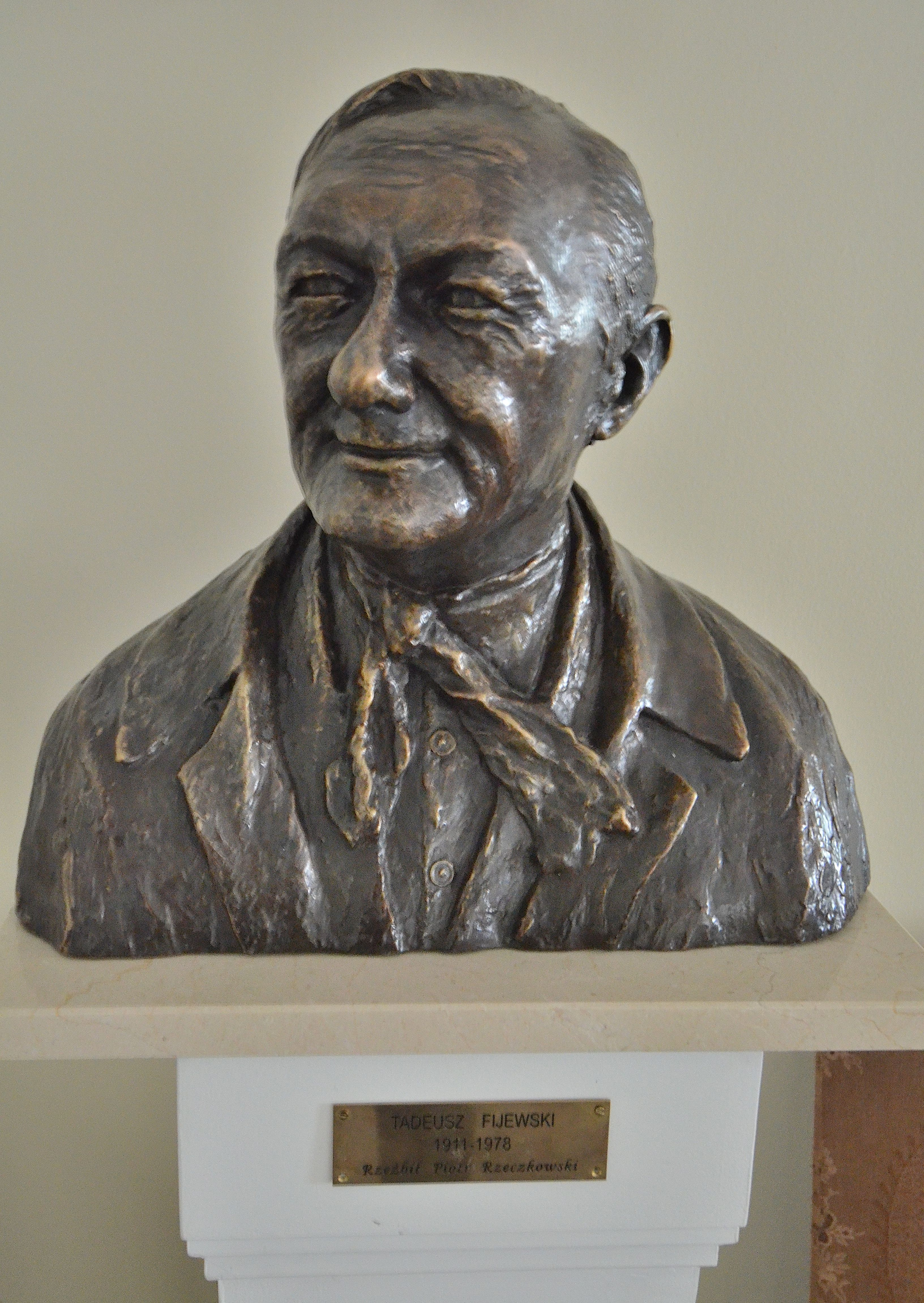 Bust of Tadeusz Fijewski at the Polish Theatre in Warsaw